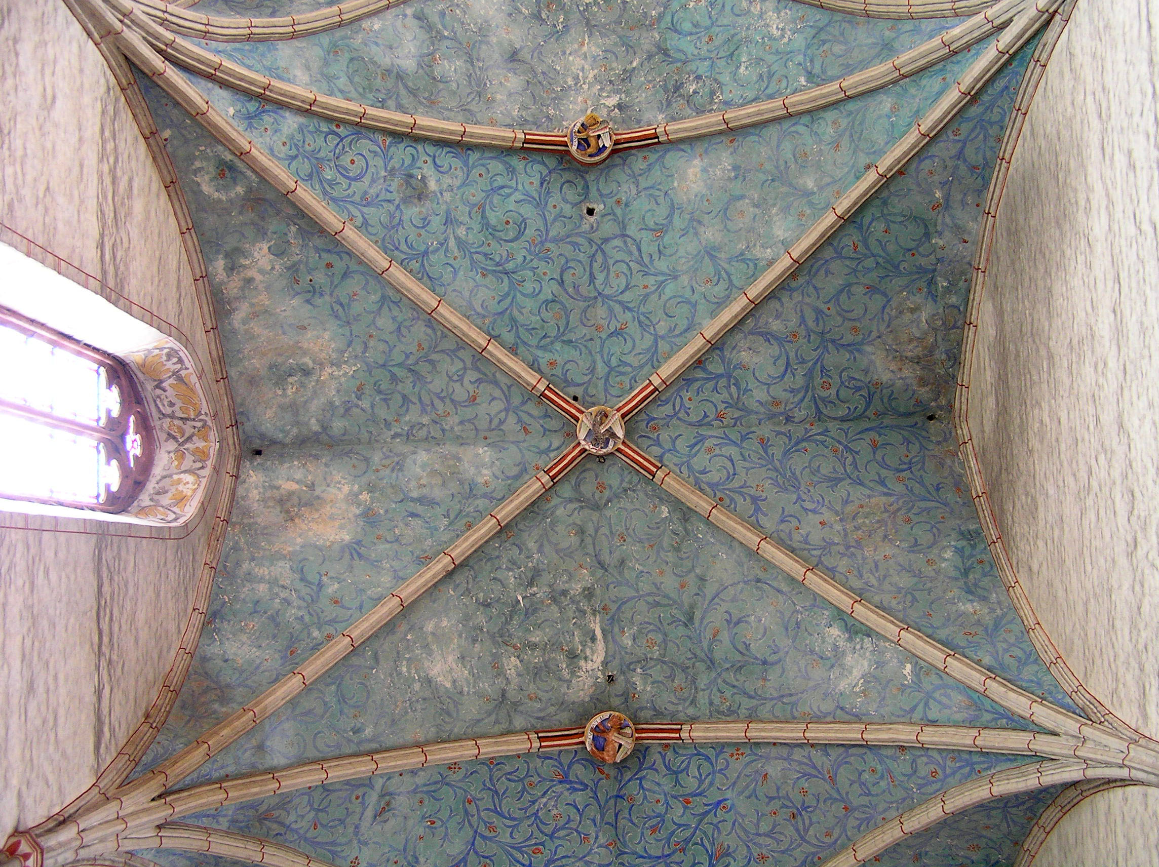 Chełmno, church of SS. James and Nicholas, until 1806 Franciscans', vaulting in the presbytery, central bay, quadripartite cross-ribbed vaults